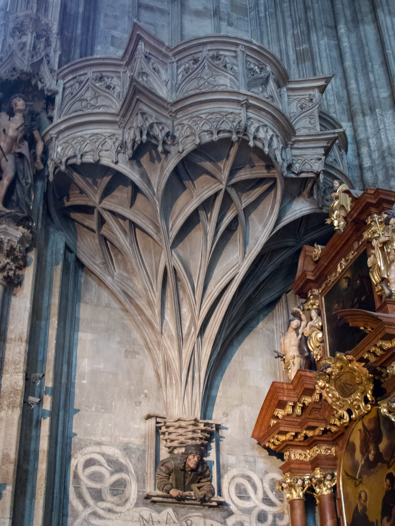 St. Stephen's Cathedral, Vienna, Austria.